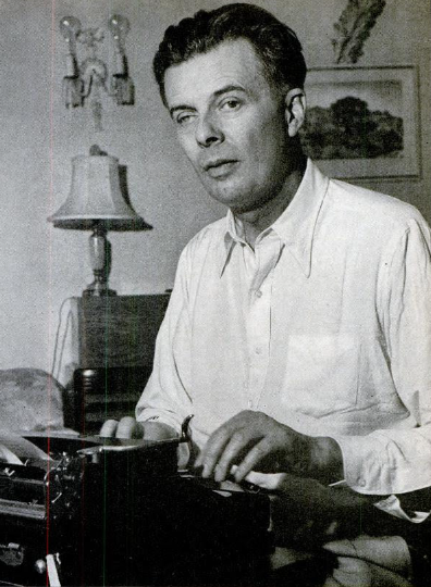 Photograph of Aldous Huxley in 1947.